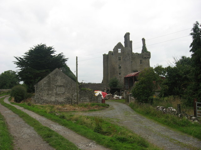 Ballycowan Castle, Co. Offaly Large fortified house built c. 1589 by Thomas Morres and extended in 1626 by Sir Jasper Herbert whose coat-of-arms is built into the gable facing camera. Viewed from the towpath of the Grand Canal.